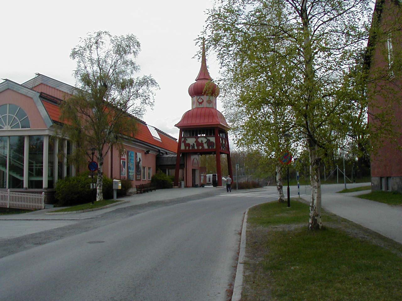 The picture shows the entrance of Jamtli museum in Östersund, Sweden. I took the picture myself in Sept. 2006.